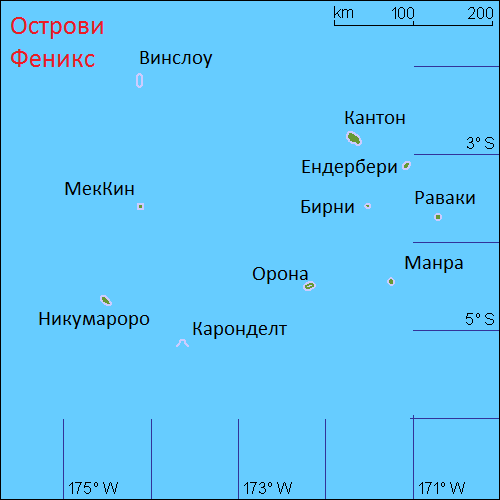 Map in Macedonian of the Phoenix islands, Kiribati, own work composed from various map references.